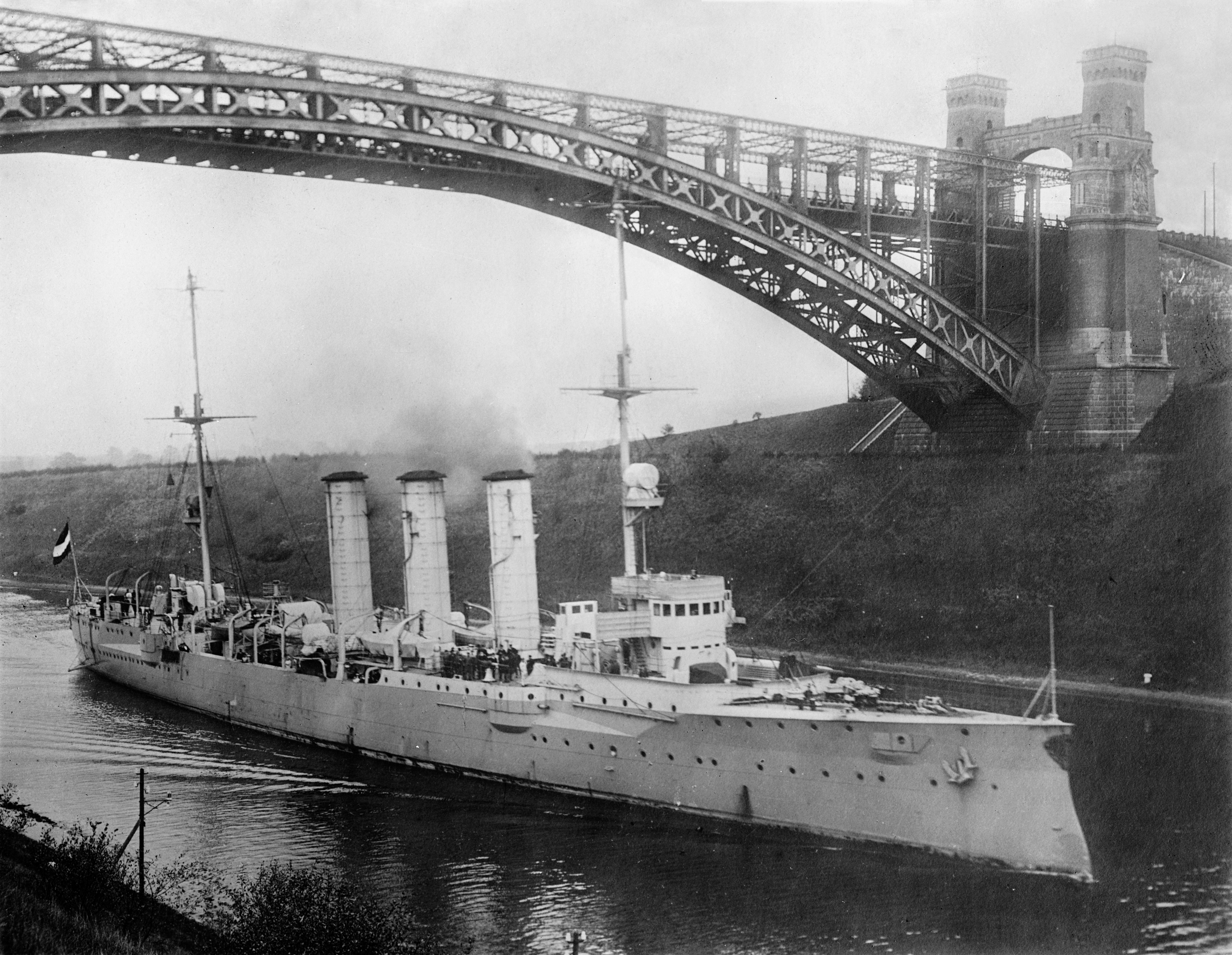 German Light cruiser SMS Dresden passing through the Kiel Canal under the Levensau High Bridge.